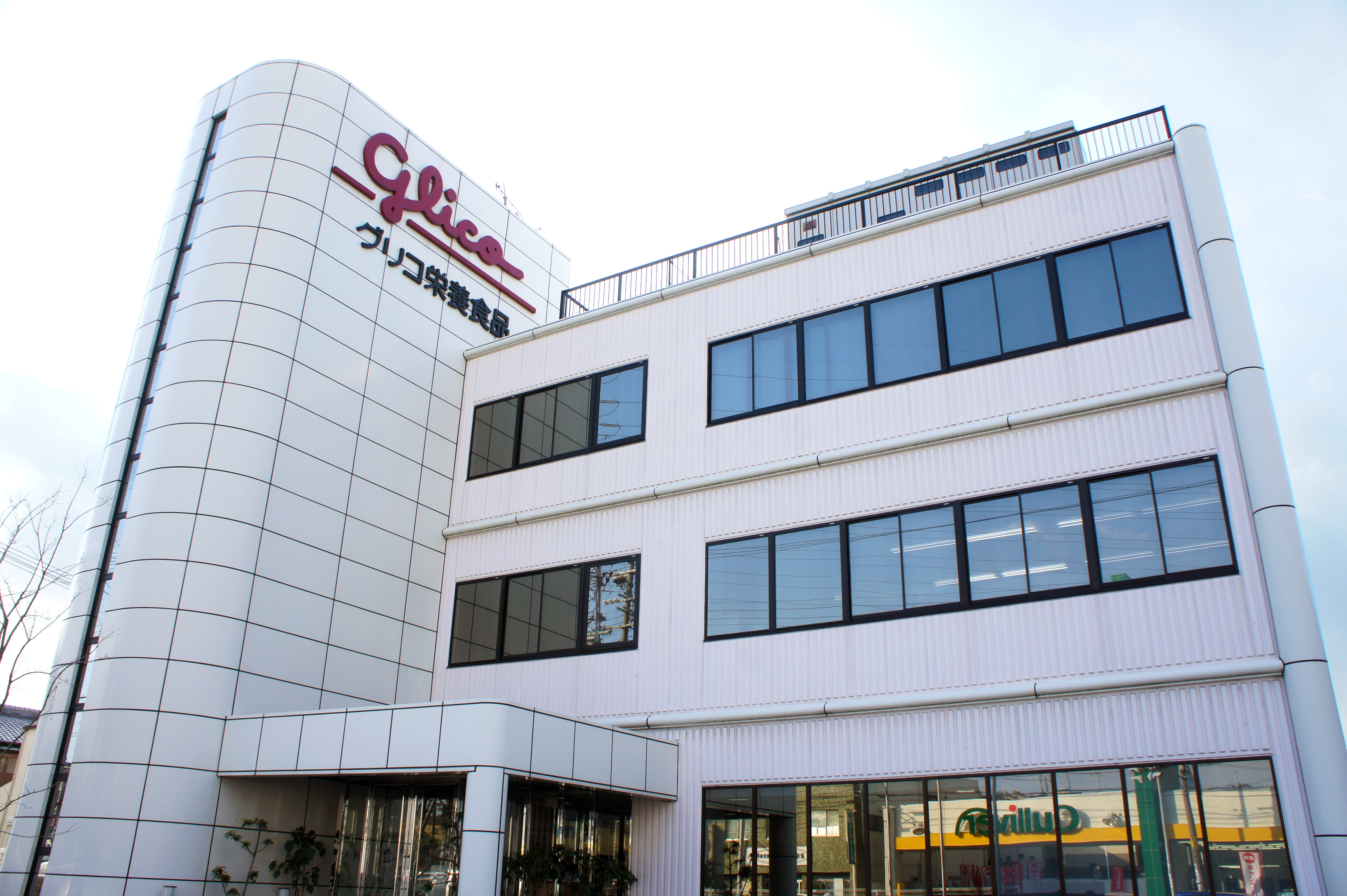 Glico Foods Co., Ltd. Head Office, 7-16 Kasugacho Takatsuki-City Osaka JAPAN